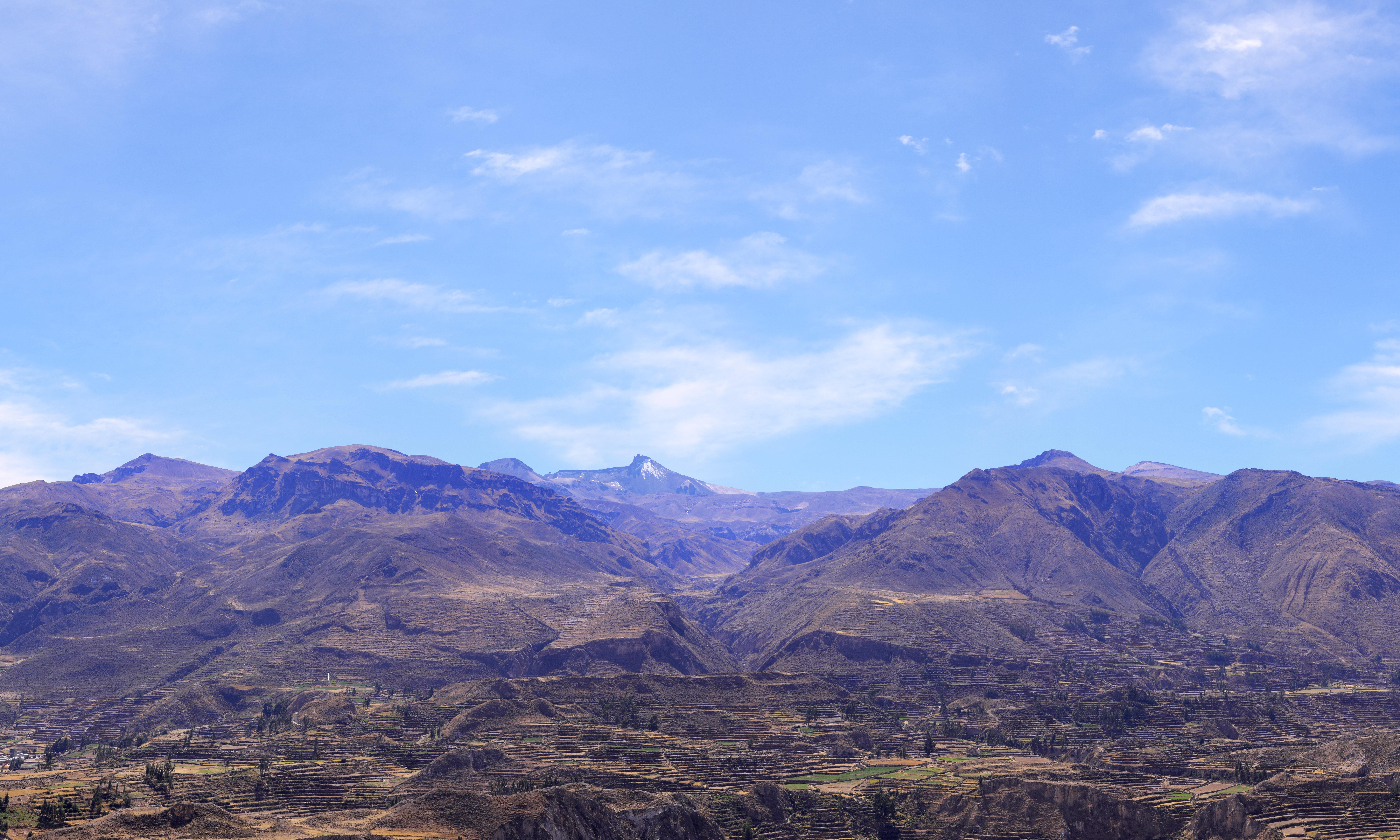 Please, have this description accessible to all by translating it in different languages.